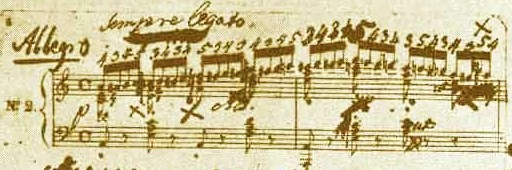 corrected proof of Chopin Etude Op.10 No.2 with fingerings in Chopin's handwriting, ca.1833